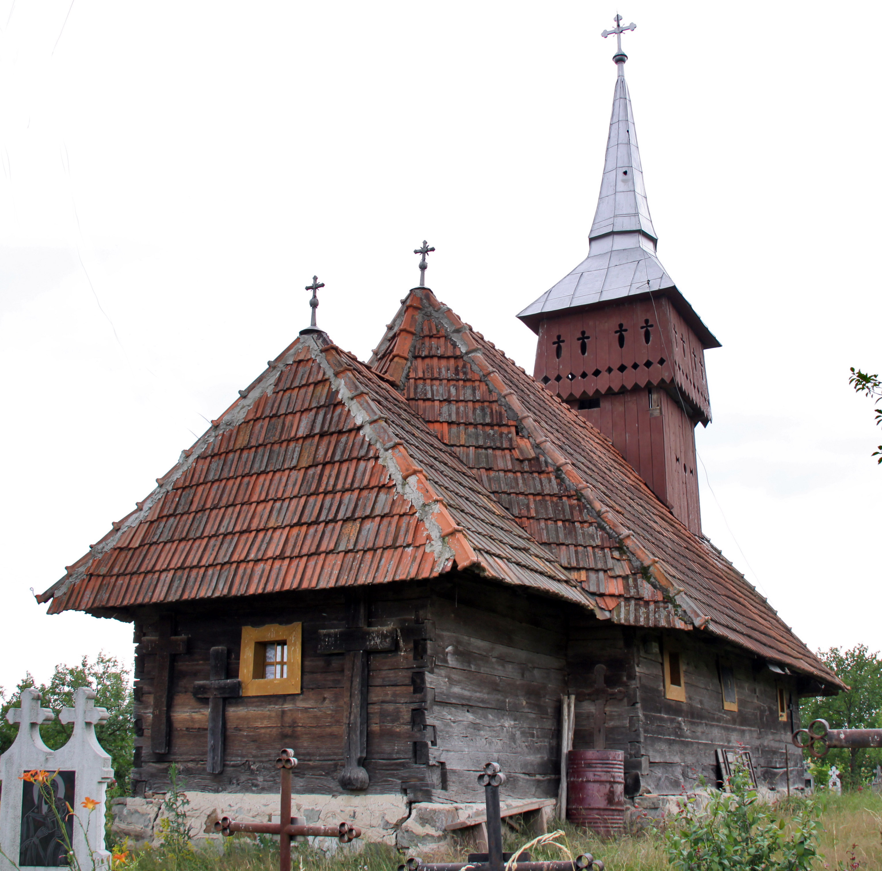 Talpe, Bihor: the wooden church. Exterior.